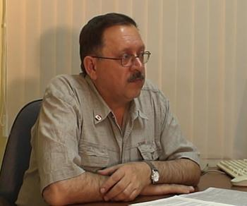 Yury Muhin